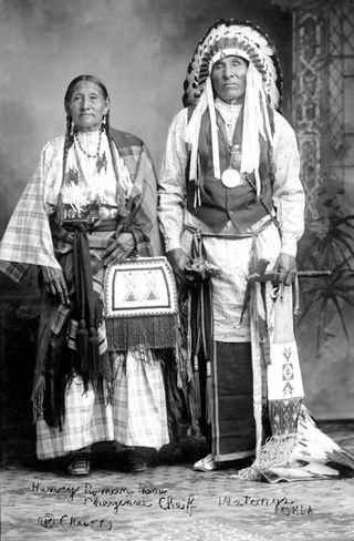 Portrait of the Southern Cheyenne Chief Henry Roman Nose. Distinguish from the Northern Cheyenne warrior leader Roman Nose.